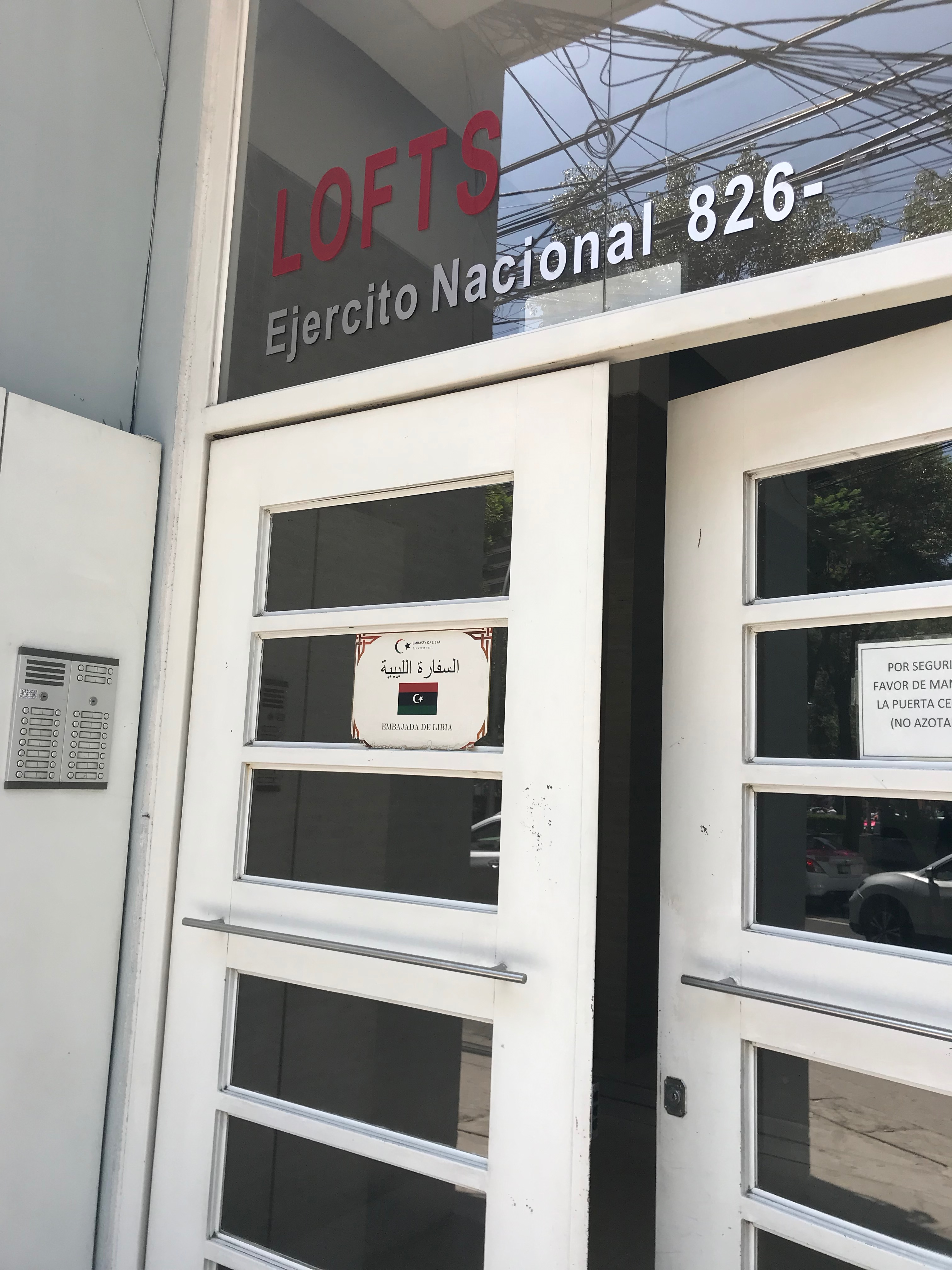 Embassy of Libya in Mexico City (photo 2)